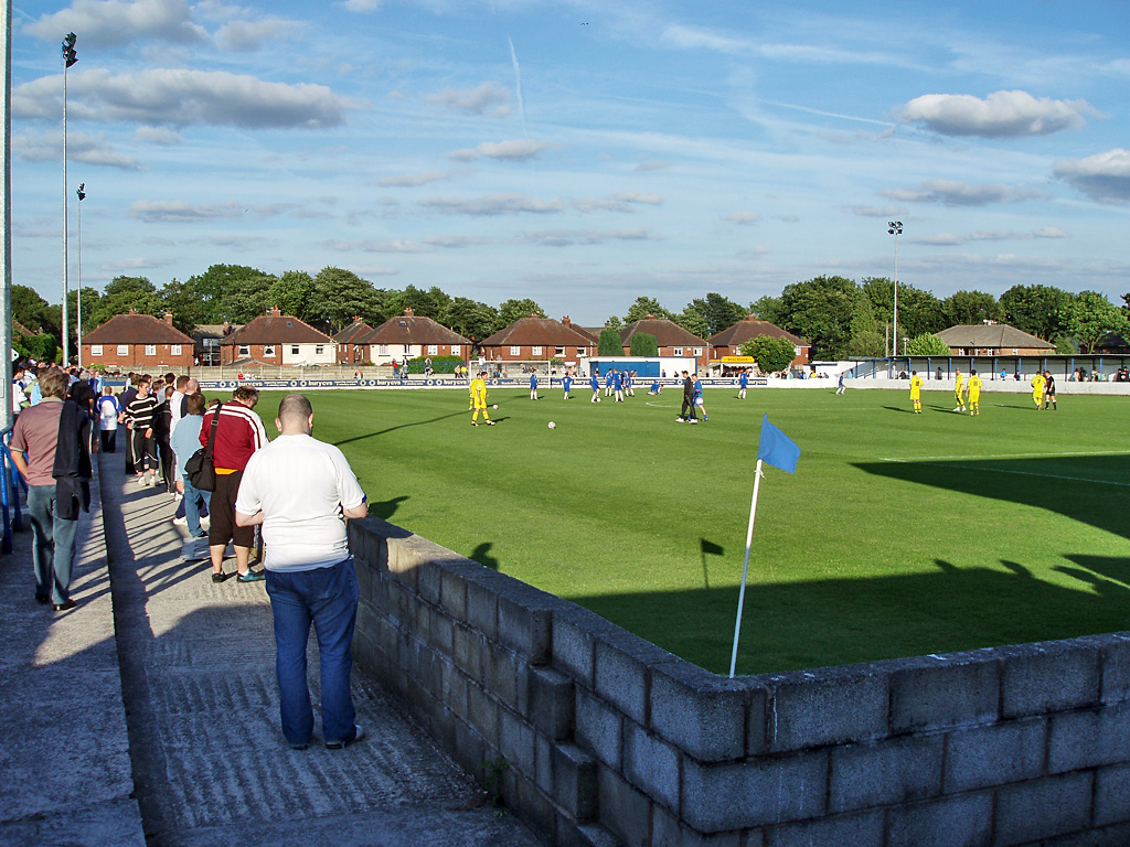 Stainton Park football ground, home of Radcliffe Borough football club. Tuesday 11 July 2006